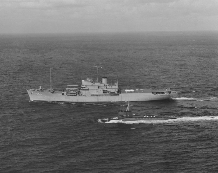 USS Observation Island (E-AG-154) underway with USS Robert E Lee (SSBN 601).